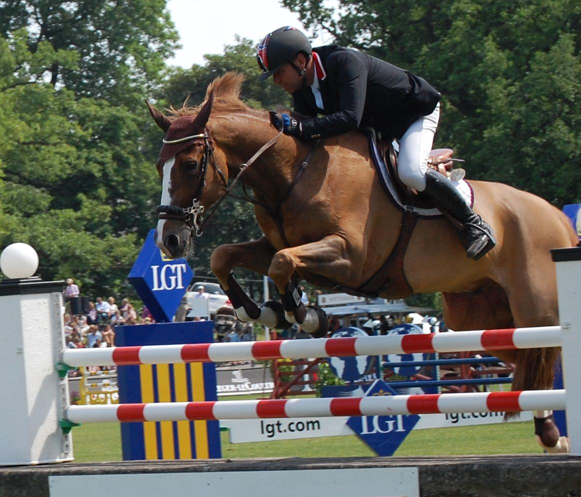 Geir Gulliksen with L'Espoir, "Championat von Hamburg", CSI 5* Hamburg 2011